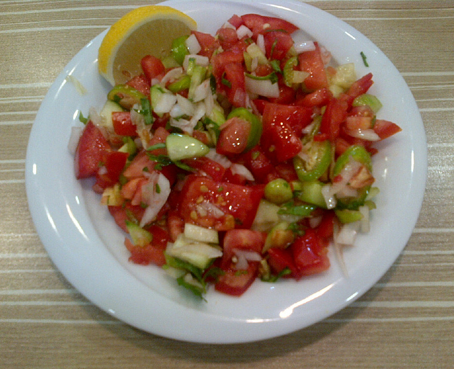 Çoban salatası from the Turkish cuisine